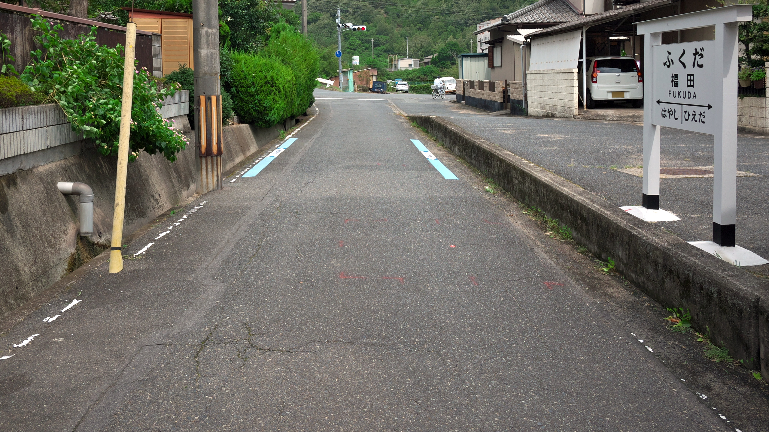 The ruin of Fukuda Station on Shimotsui Dentetsu Line in Fukue, Kurashiki, Okayama prefecture